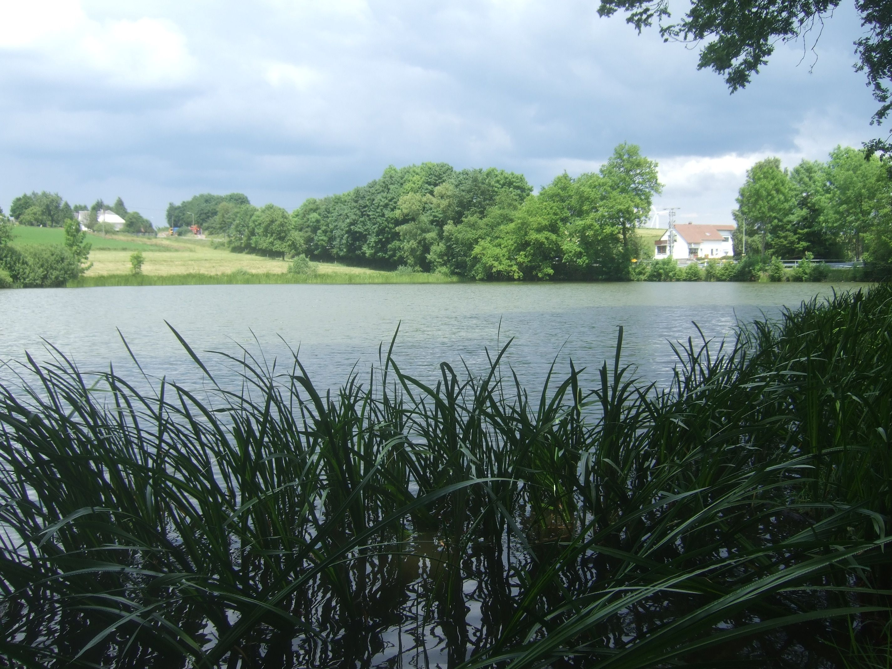 Steinbachweiher near Paschel